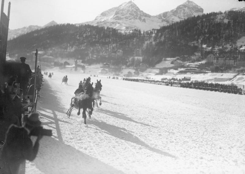 Horse racing on frozen Lake St. Moritz (1931) Rumantsch: Lej da San Murezzan